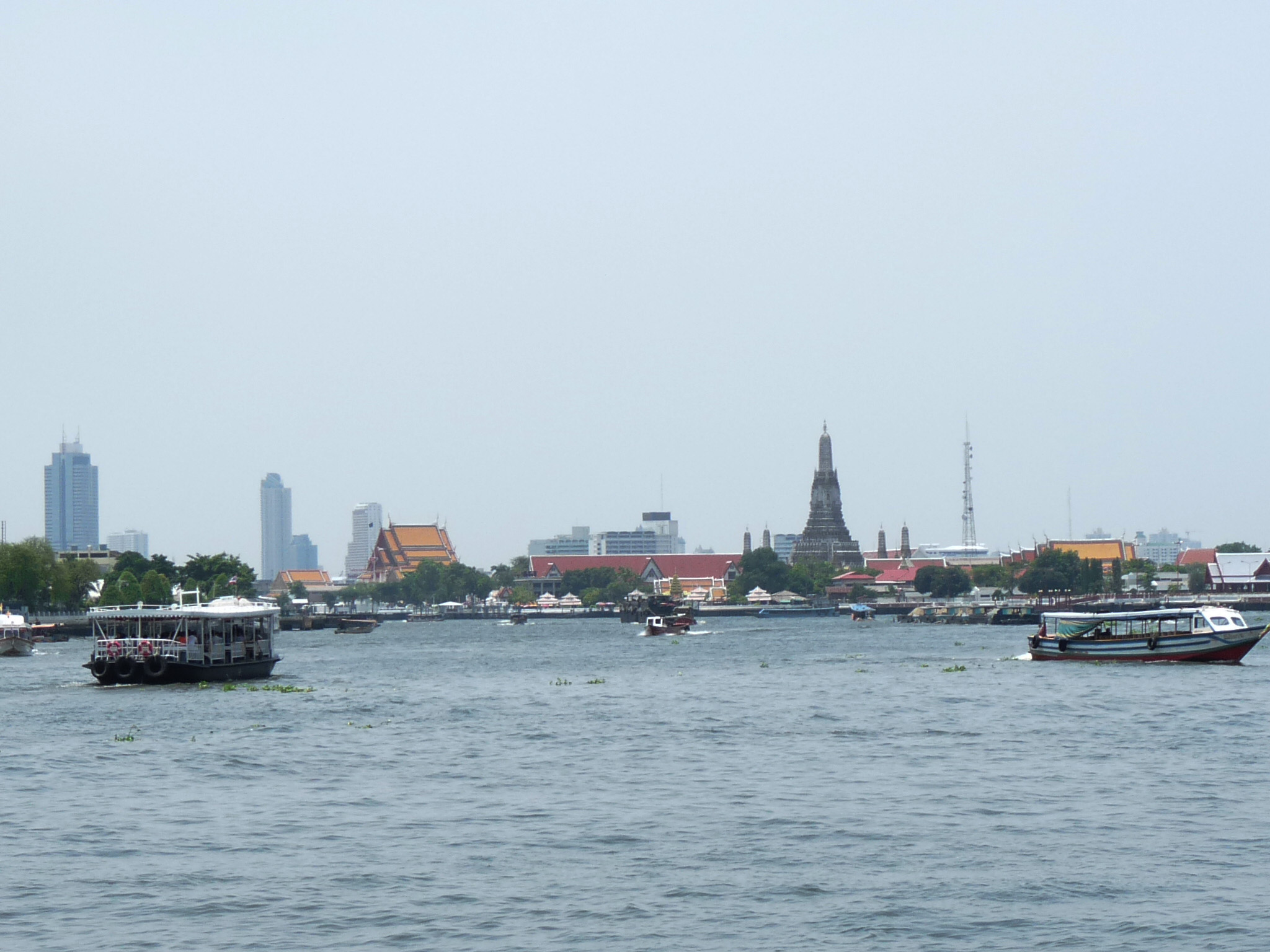 The Chao Phraya River crossing Bangkok. In background, the Wat Arun.